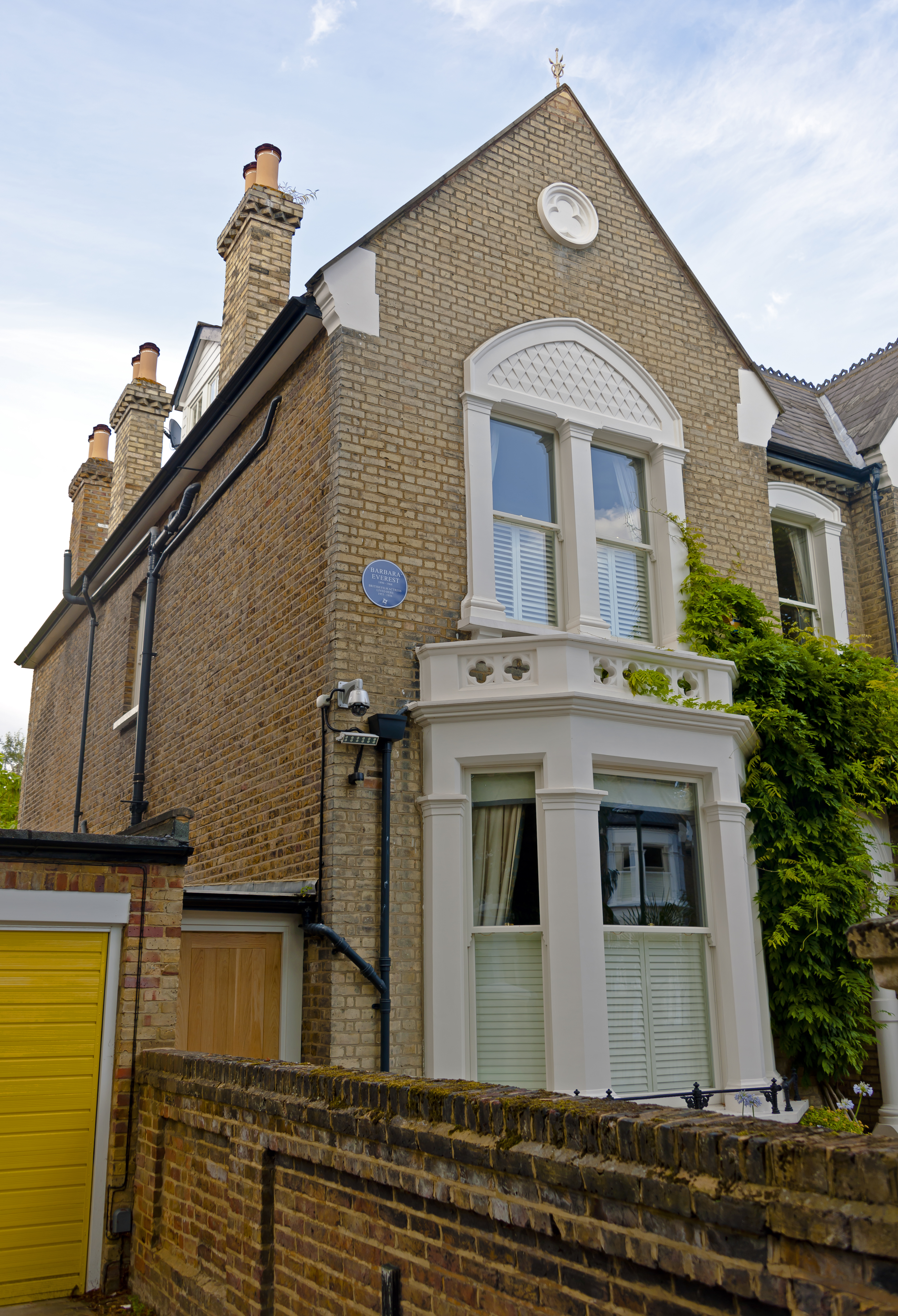 House of film actress Barbara Everest near Kew Gardens in London, between Victoria Gate and the Underground station.